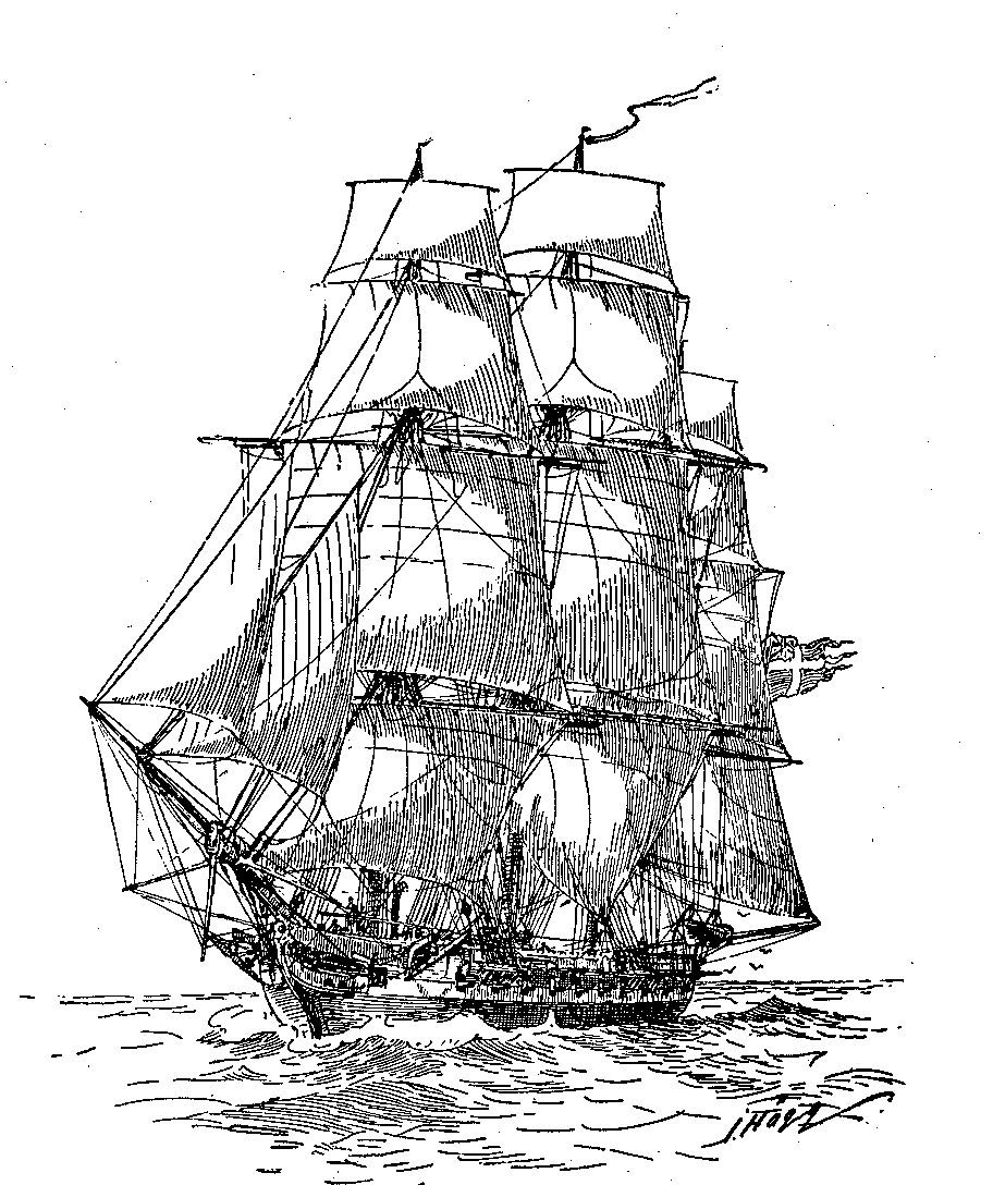 Built 1841 Sunk in the West Indies 30 april 1846.